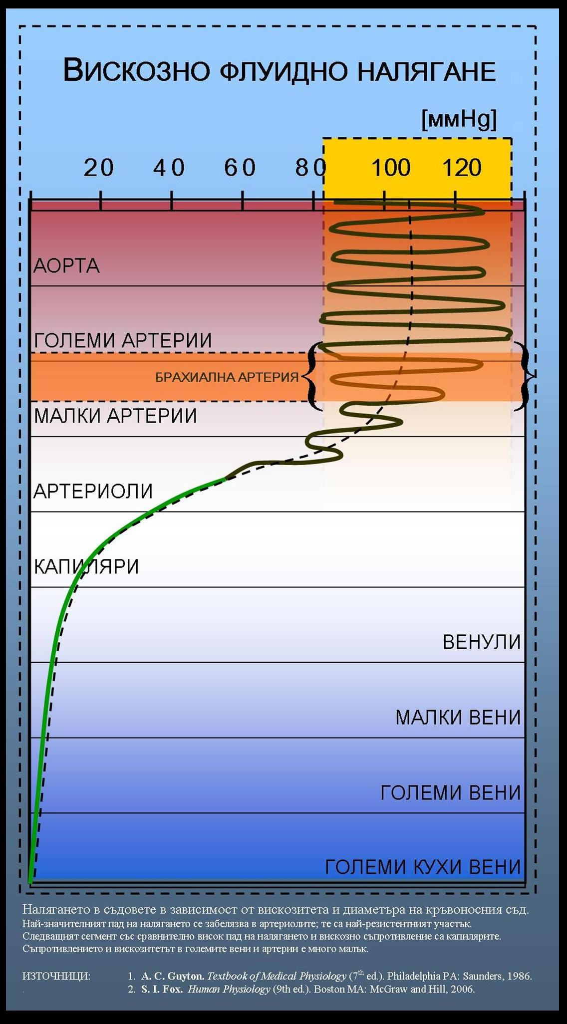 The diagram indicates the relationship between blood pressure, blood viscosity and vessel diameter. It relates to the Bulgarian articles of Blood pressure and Korotkoff sounds.